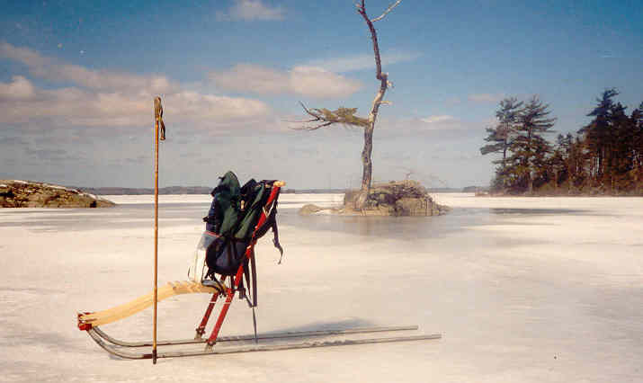 Kicksled on the ice at Gaspereau Lake, Nova Scotia, Canada